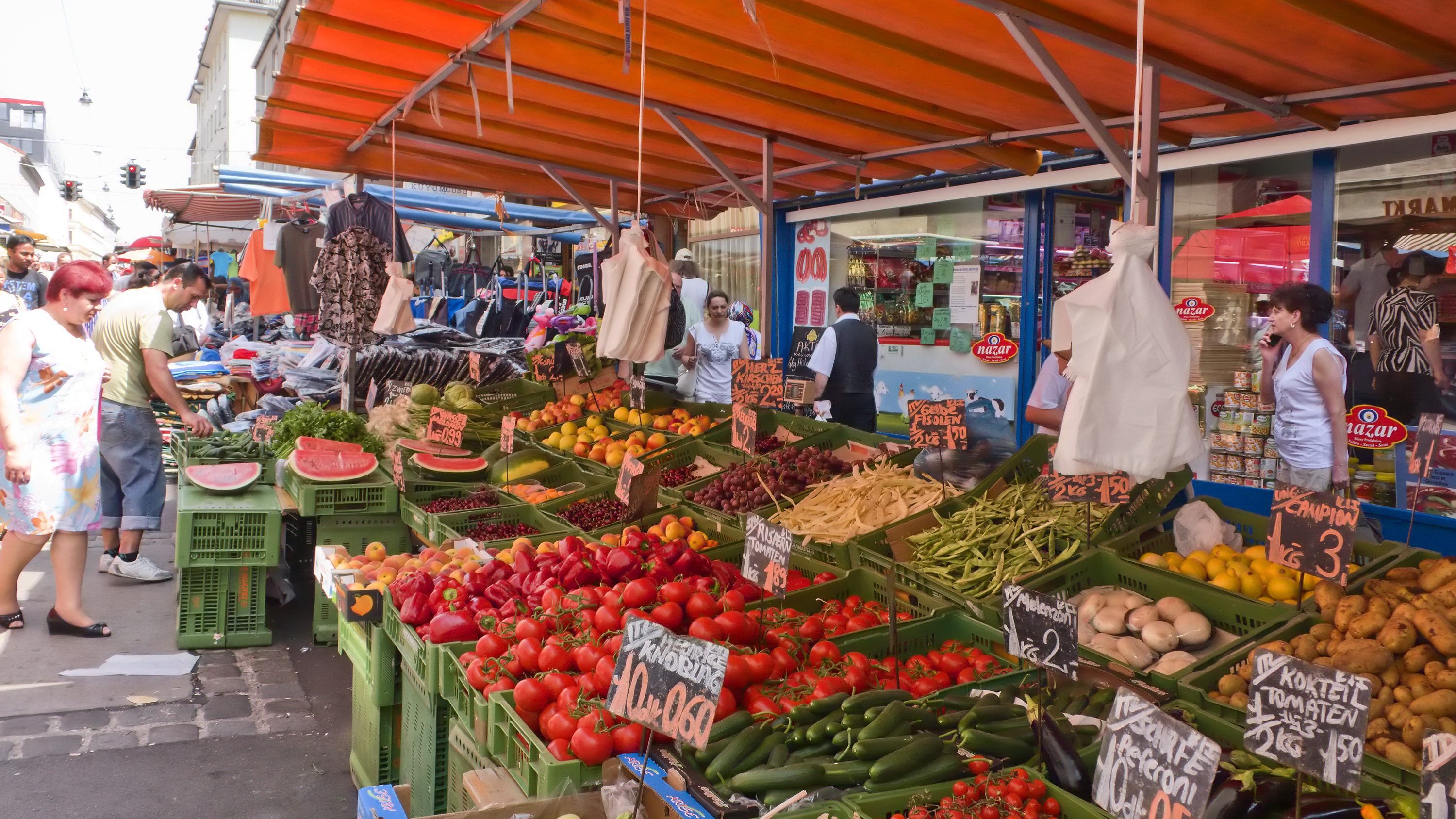 Market place Brunnenmarkt in Vienna Ottakring